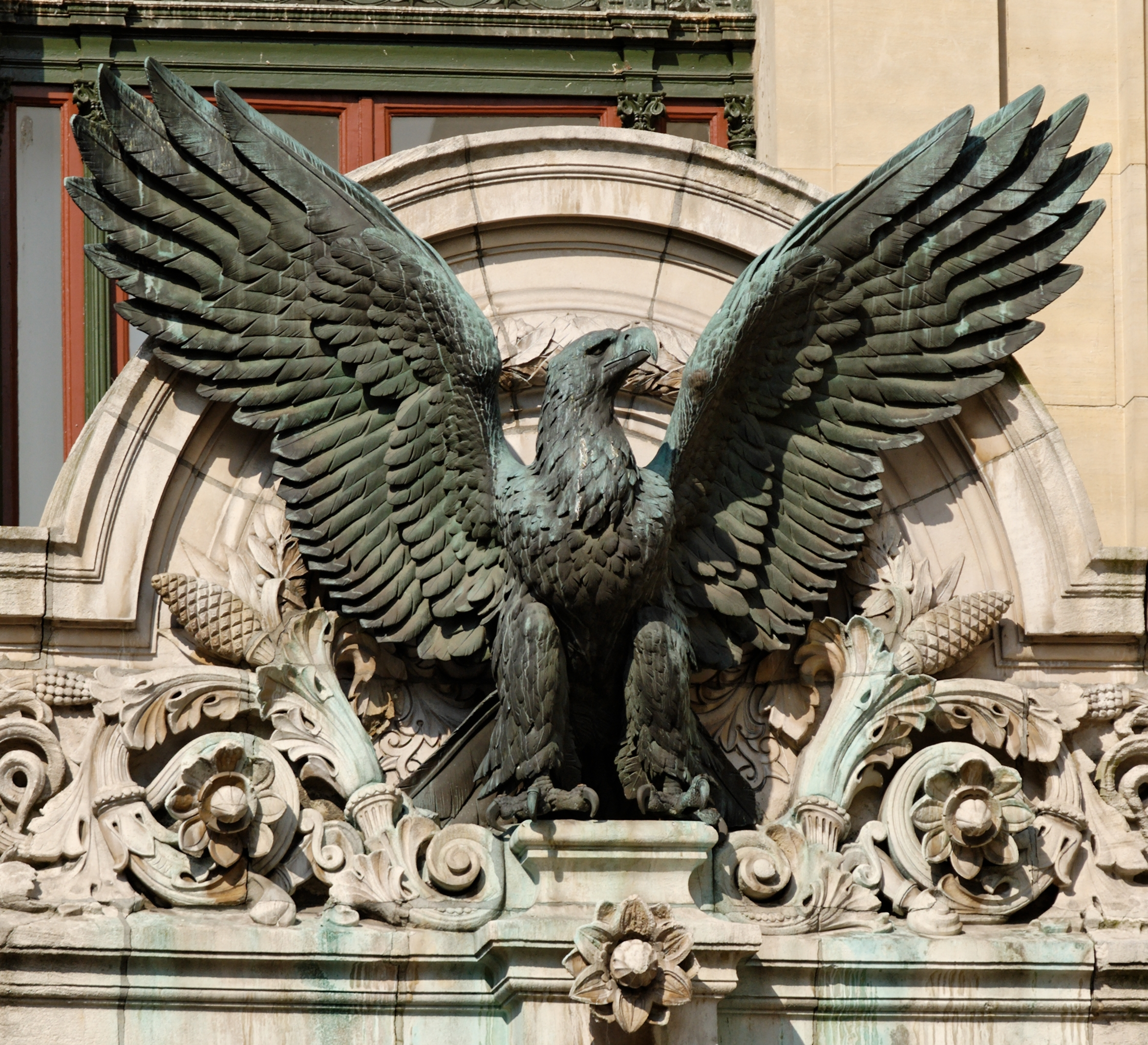 Bronze imperial eagle by Alfred Jacquemart (1824–1896). Ornament crowning the south carriage entrance of the Emperor's Pavilion on the west side of the Palais Garnier.